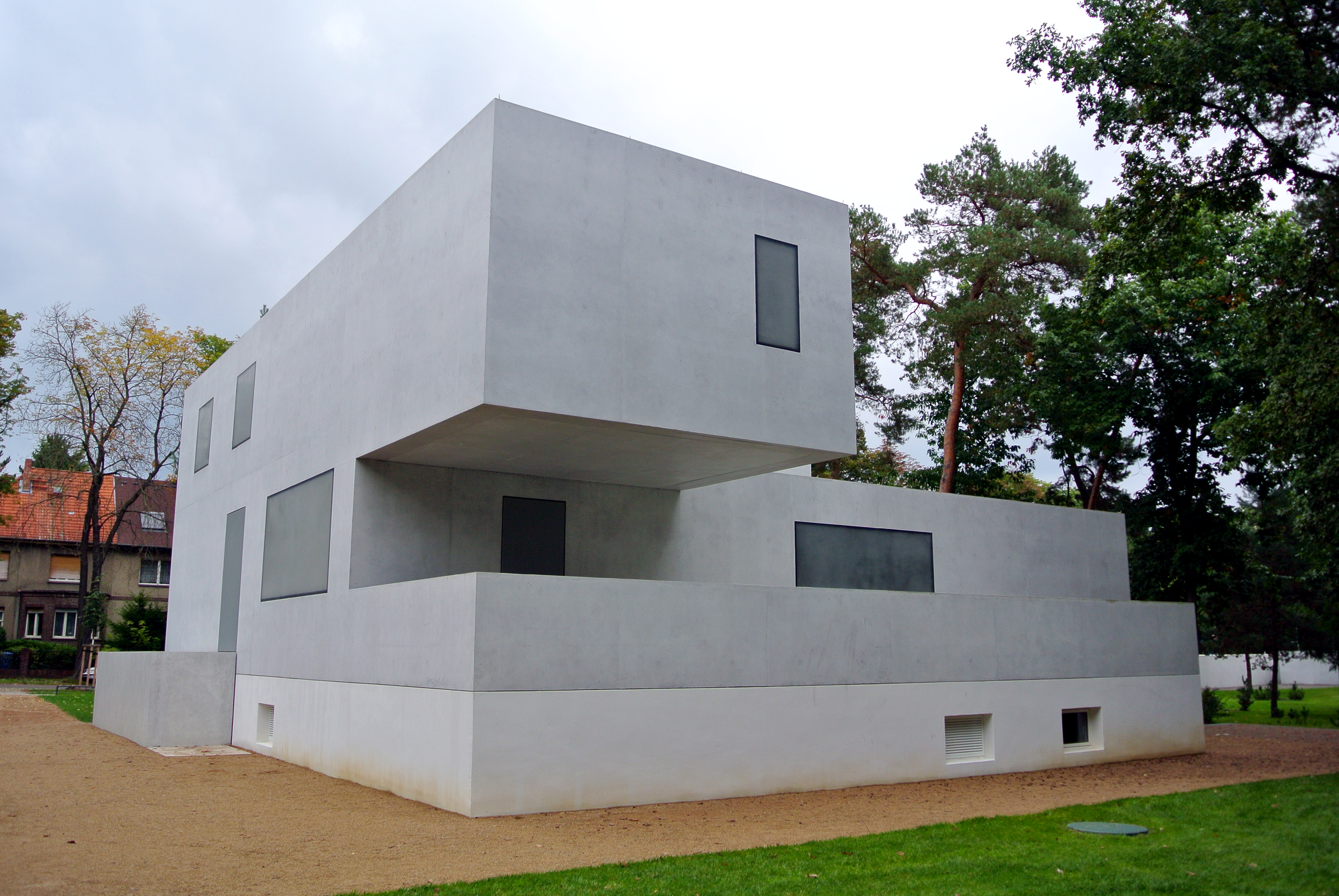 Bauhaus-Masters houses in Dessau